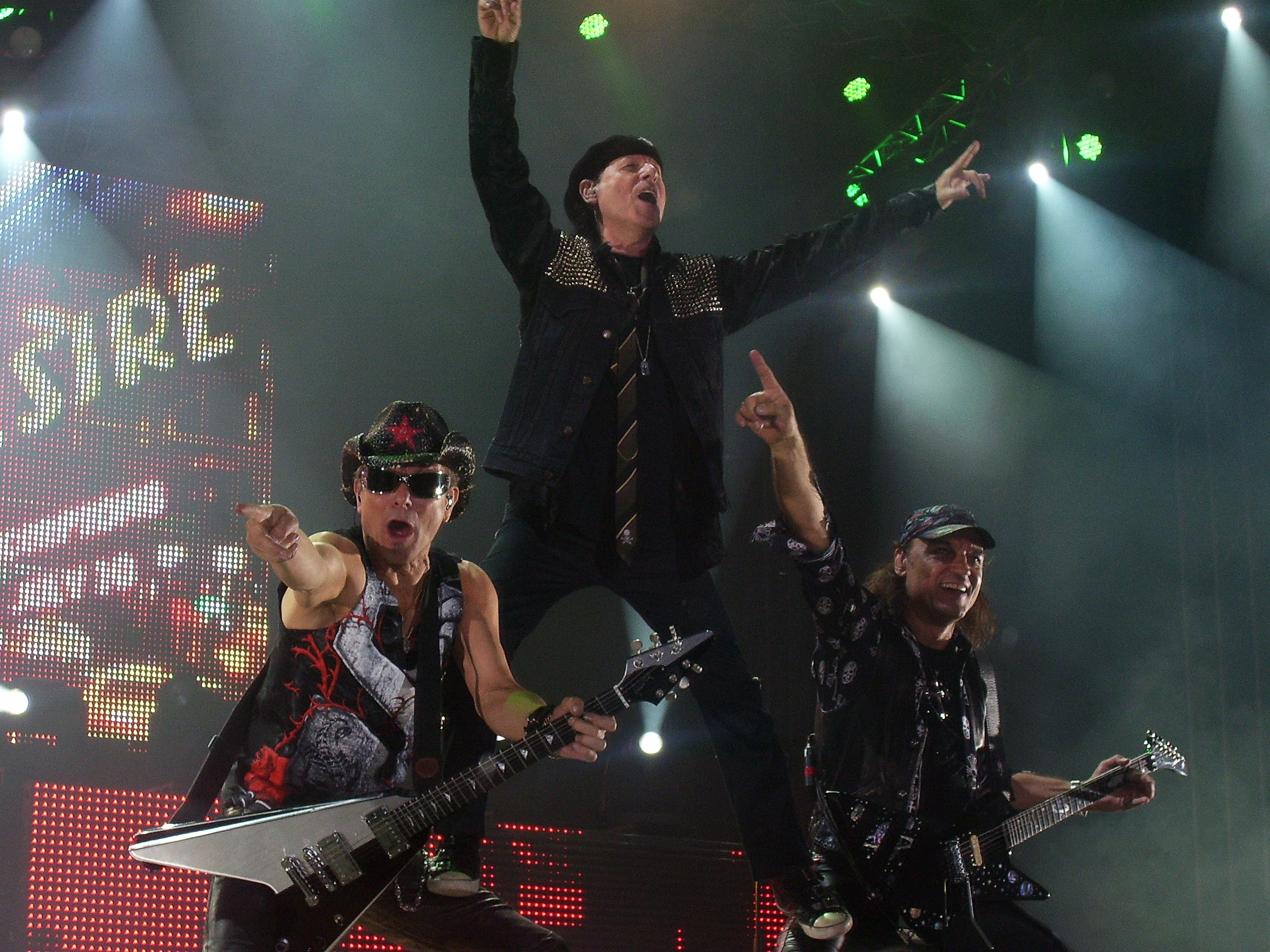 Rudolf Schenker, Klaus Meine and Matthias Jabs in Bulgaria 2010